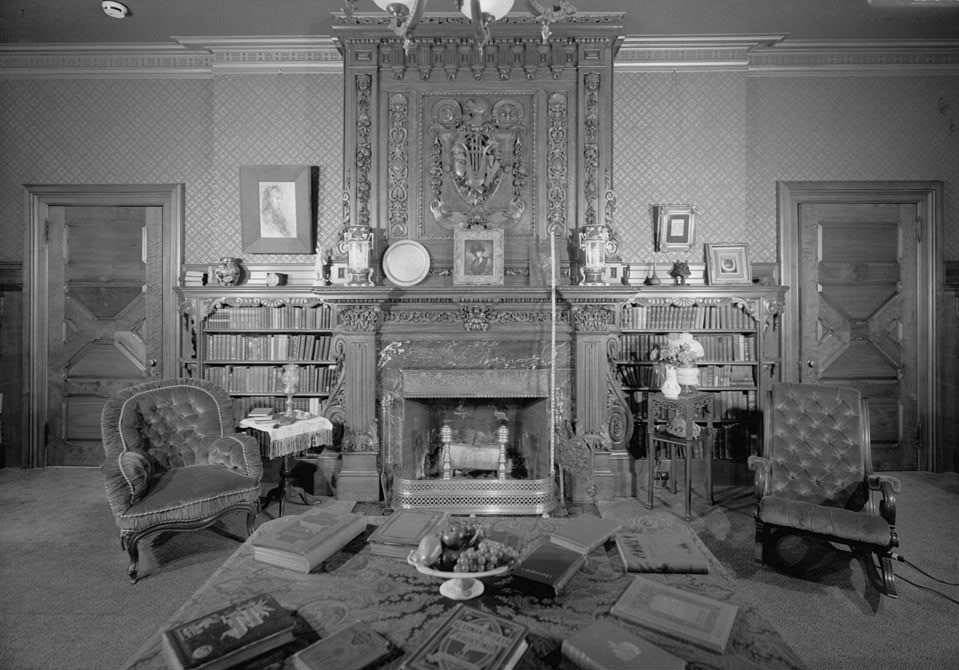 Mark Twain House, 351 Farmington Avenue, Hartford, Hartford County, CT - Interior, first floor, library, east wall with fireplace and mantle, without scale.